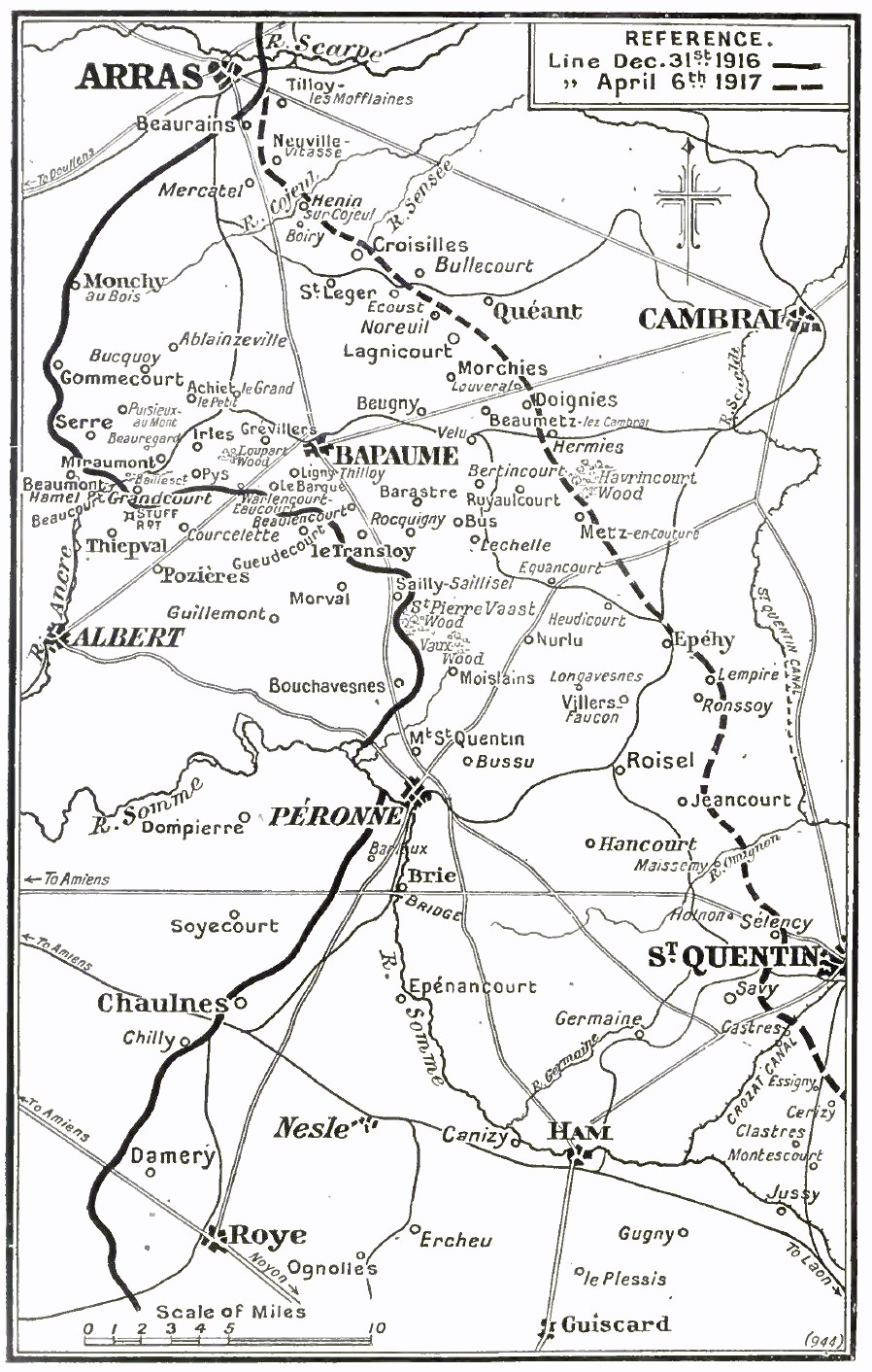 Map of German Siegfriedstellung defences